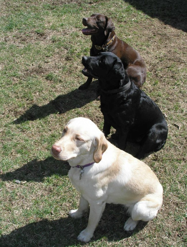 Molly, Zoey, and Chance - all three Labrador colours.